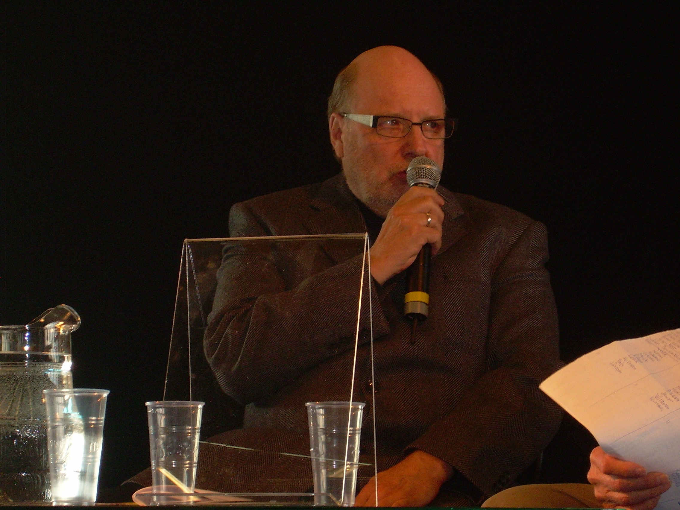 Finnish crime writer and journalist Jouko Raivio at the Turku International Book Fair.